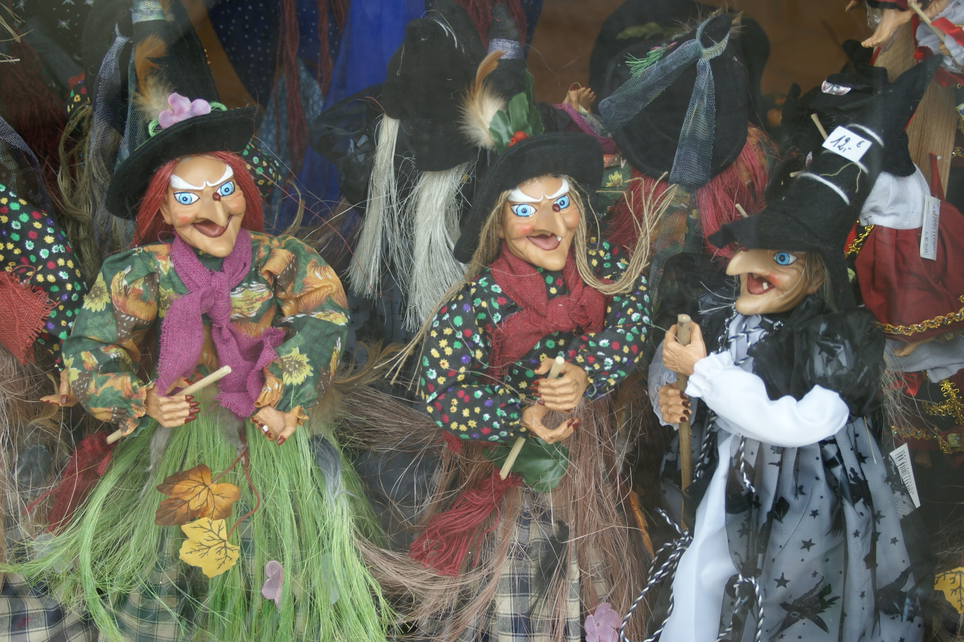 Handicraft witches in Obernai, France